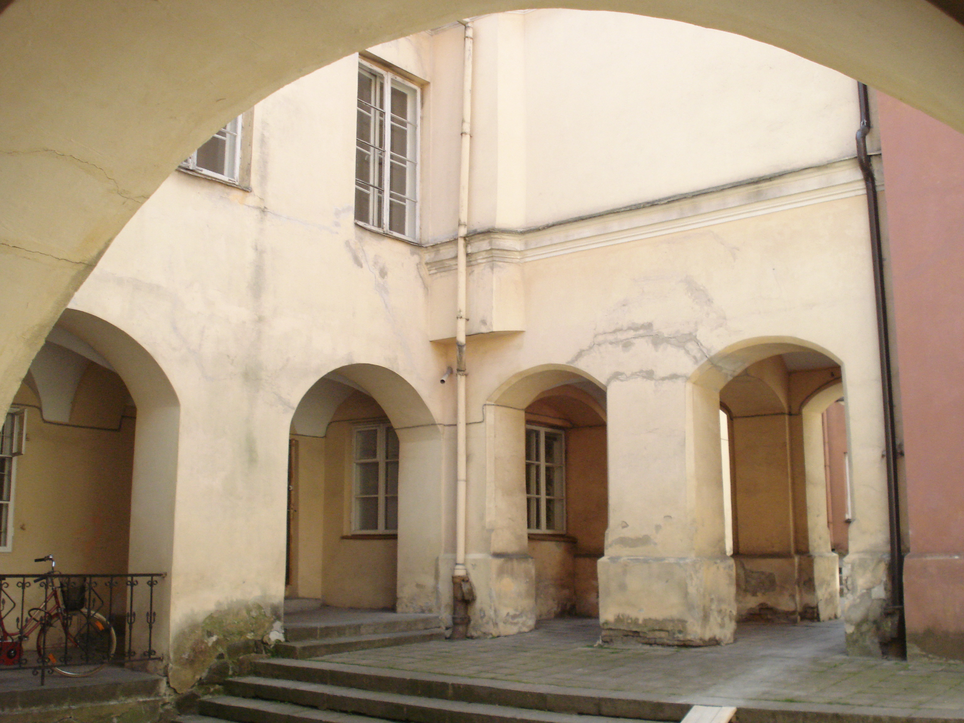 Arcade Courtyard (Vilnius University)